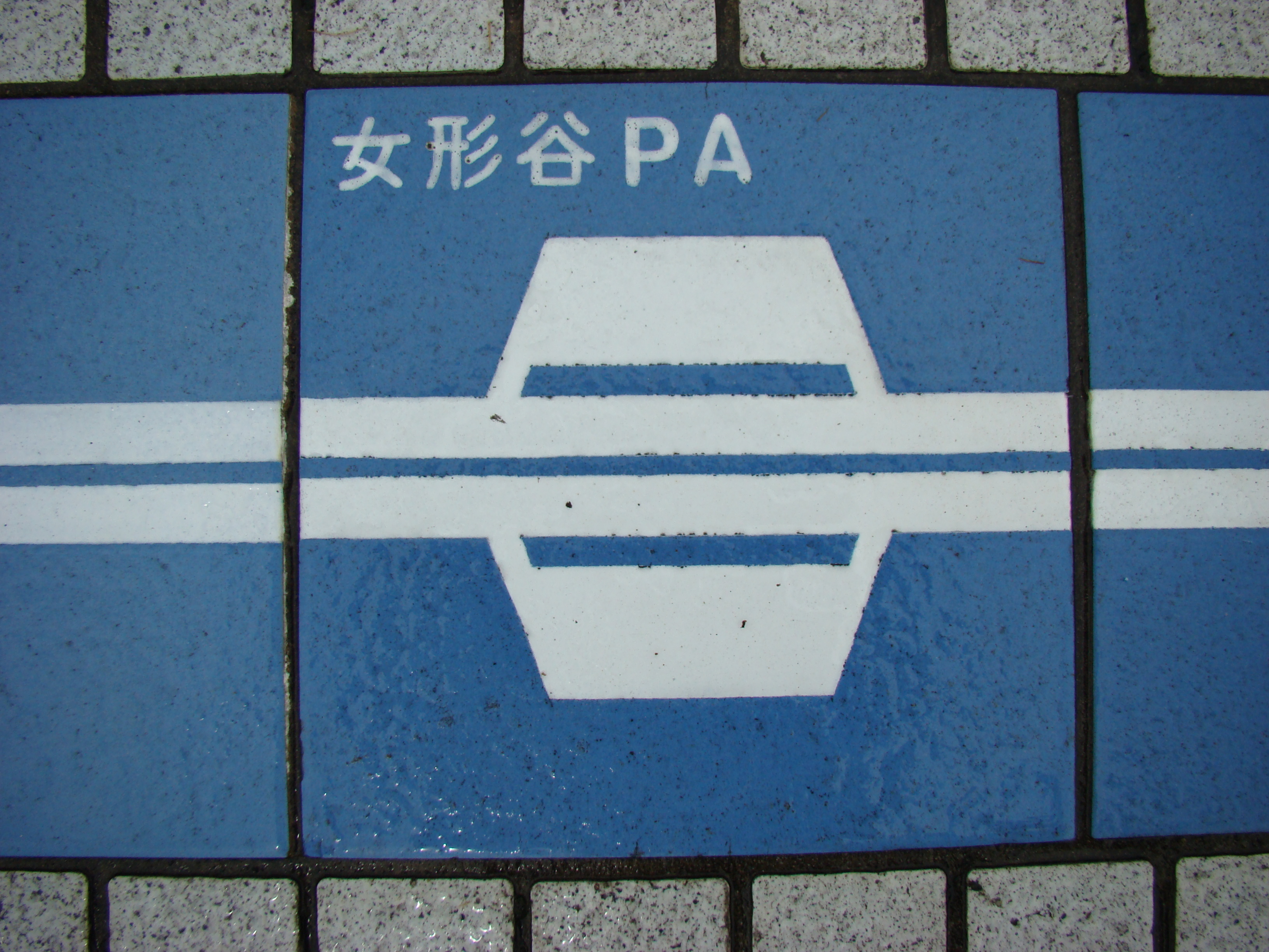 The tile which designed a shape of the Onagatani Parking Area（Hokuriku Expressway）（There is this tile in Hokuriku Expressway Nadachi-Tanihama Service Area.）. Place - Chayagahara,Joetsu City,Niigata Prefecture,Japan Date - August 9, 2009 Format - JPEG, 3264x2448pixel, 24bit colors. Photographer - NALA Wiki (talk)